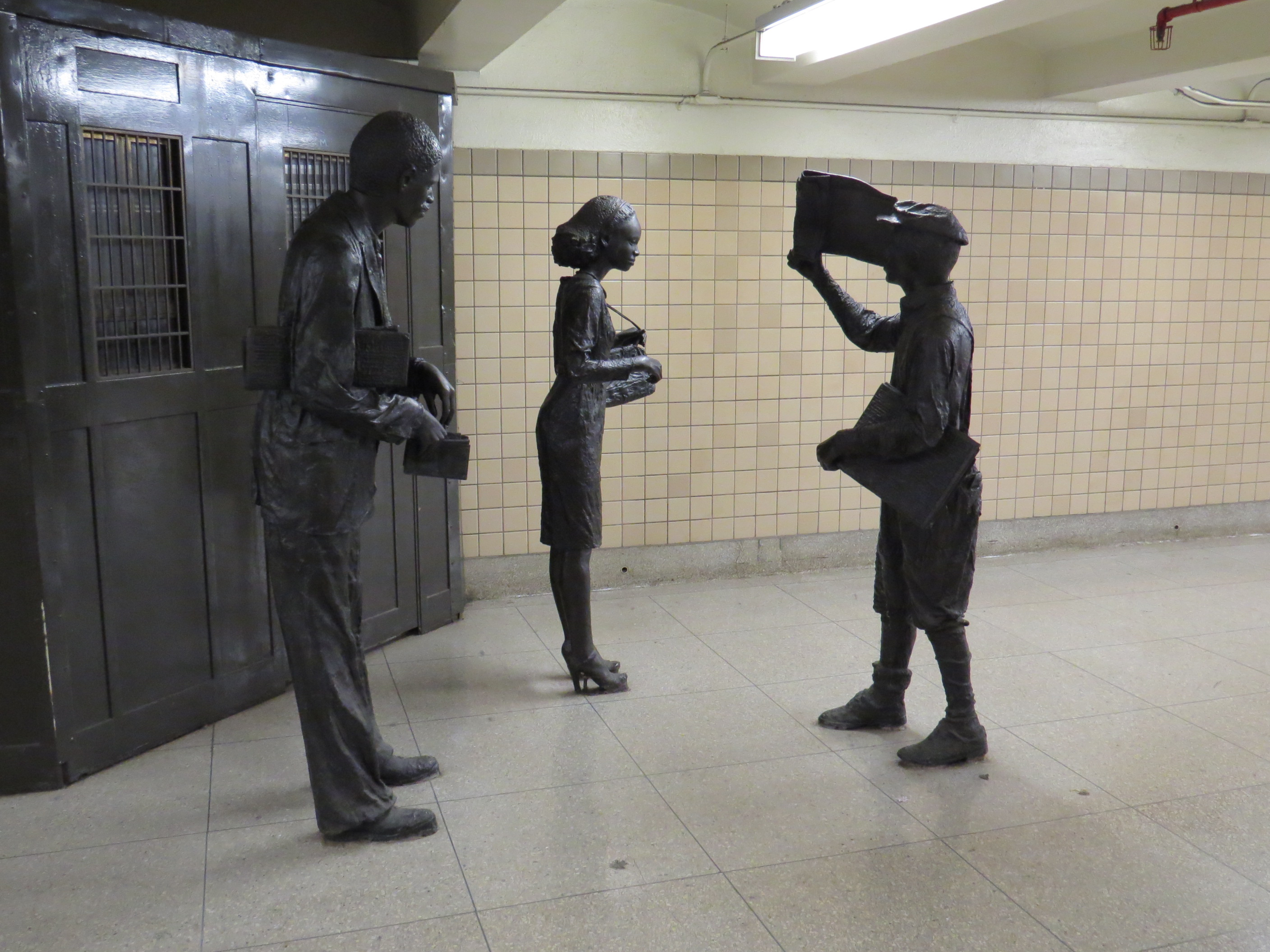 statues, Penn station, Newark NJ on corridor between the NJ Transit station and Newark Light Rail